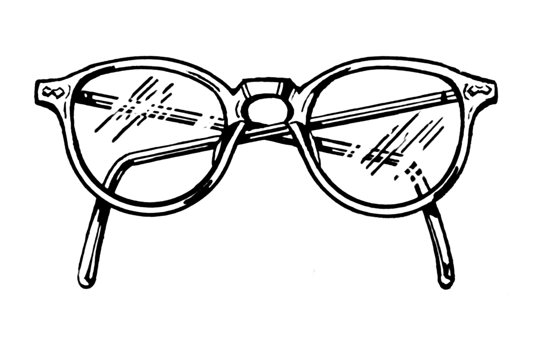 Line art drawing of spectacles.